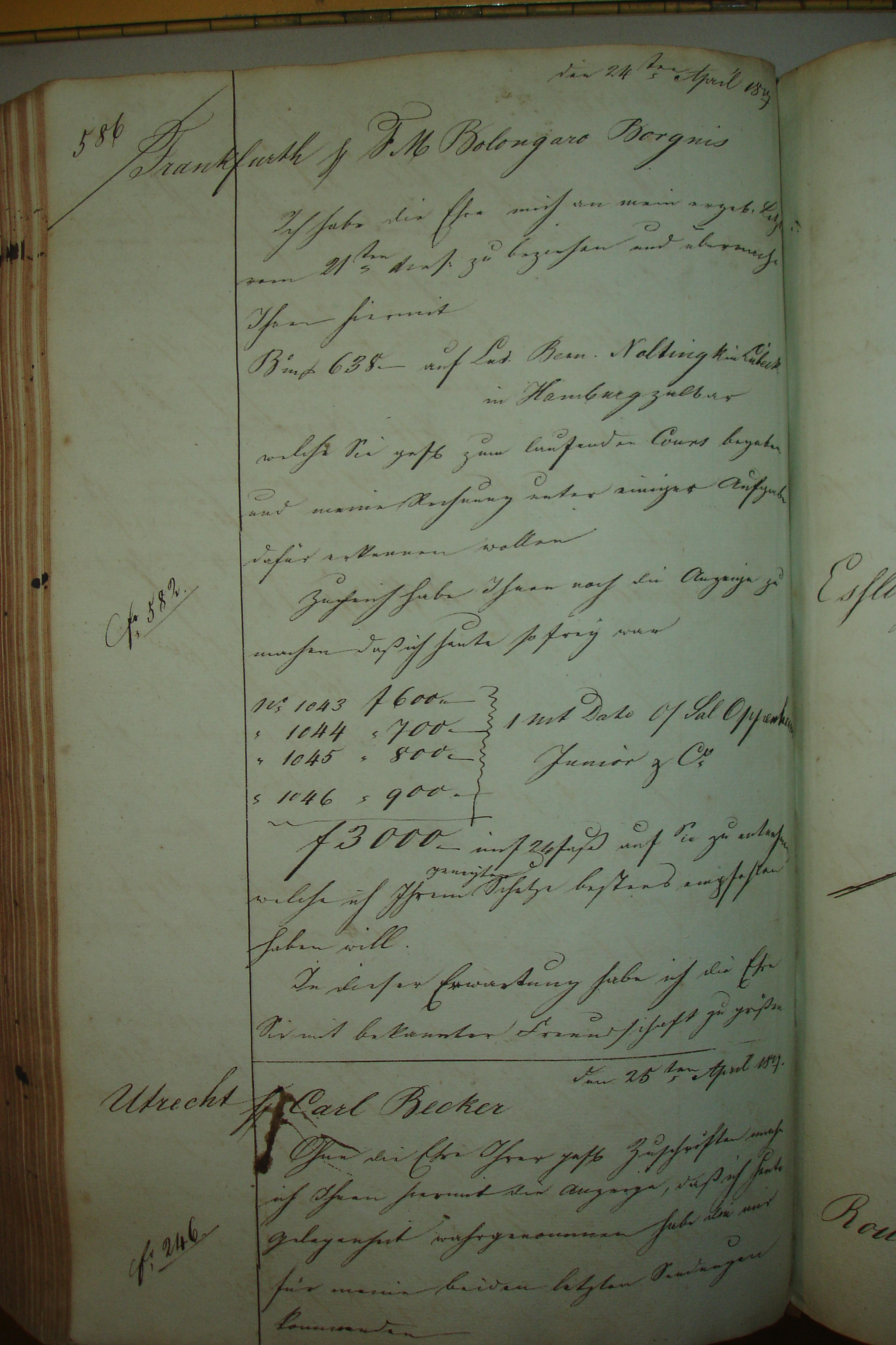 Farina Order Book 1817